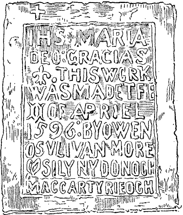 Copy of inscription stone from Dunkerron Castle, County Kerry, Ireland. Text reads: IHS. Maria Deo Gratias. This work was made 11th April, 1596, by Owen O'Sullivan and Sily [Giles] Nig [h] Donogh MacCarthy Reagh This copy of the inscription was published in 1898 in Volume IV of the Journal of the Cork Historical & Archaeological Society (JCHAS). The article in which this image/copy appeared was titled "Ancient History of the Kingdom of Kerry" and attributed to Friar O'Sullivan of Muckross Abbey. The article stated that the inscription was found "over the fireplace" at Dunkerron Castle. A later errata addition to the JCHAS publication noted that the Editor of the Ulster Journal of Archæology had advised that the original inscription stone and coat of arms were to be found over a well within the castle demesne.